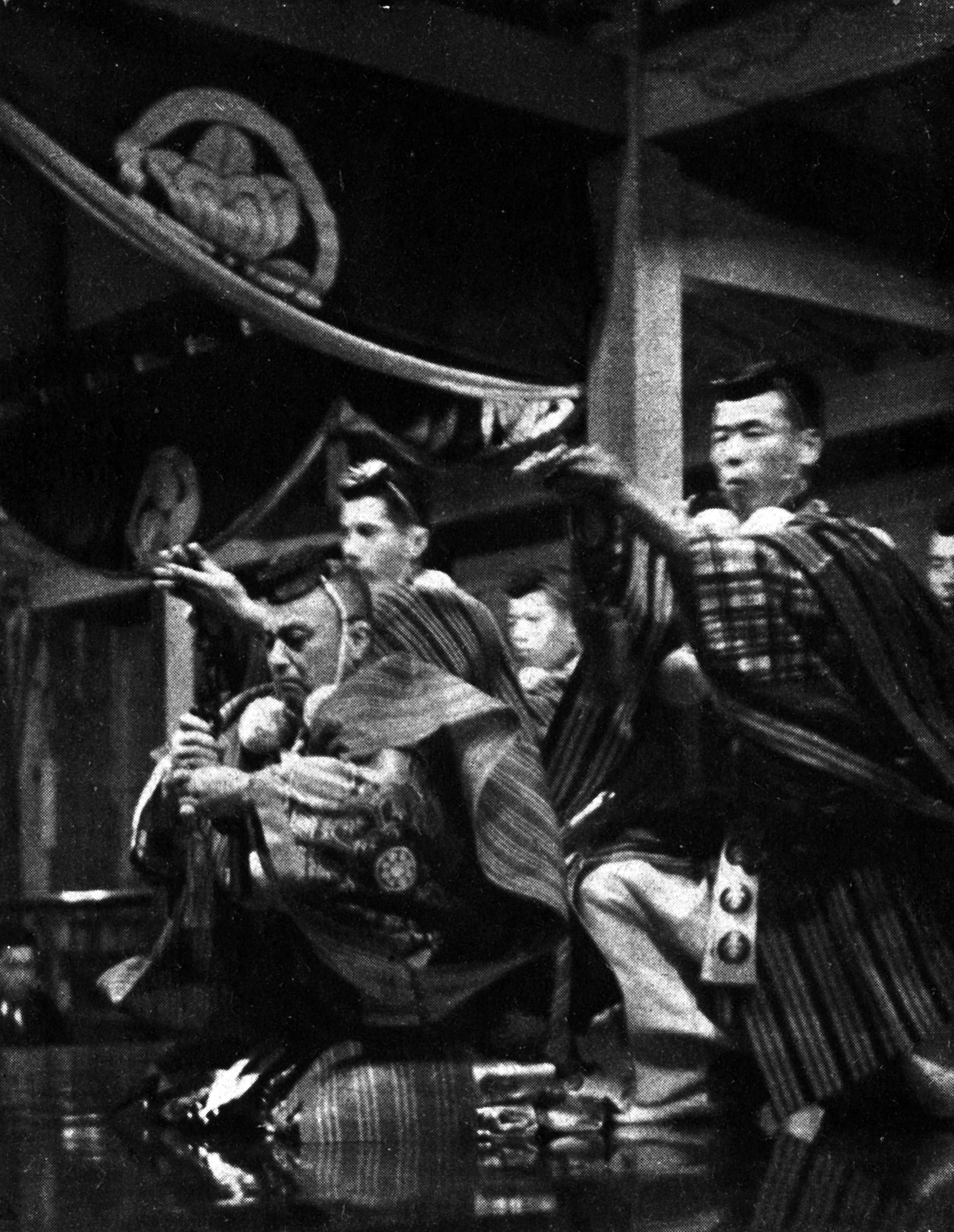 stage photo: Noh play Ataka, UMEWAKA Rokuro(54th, aka UMEWAKA Minoru(2nd)